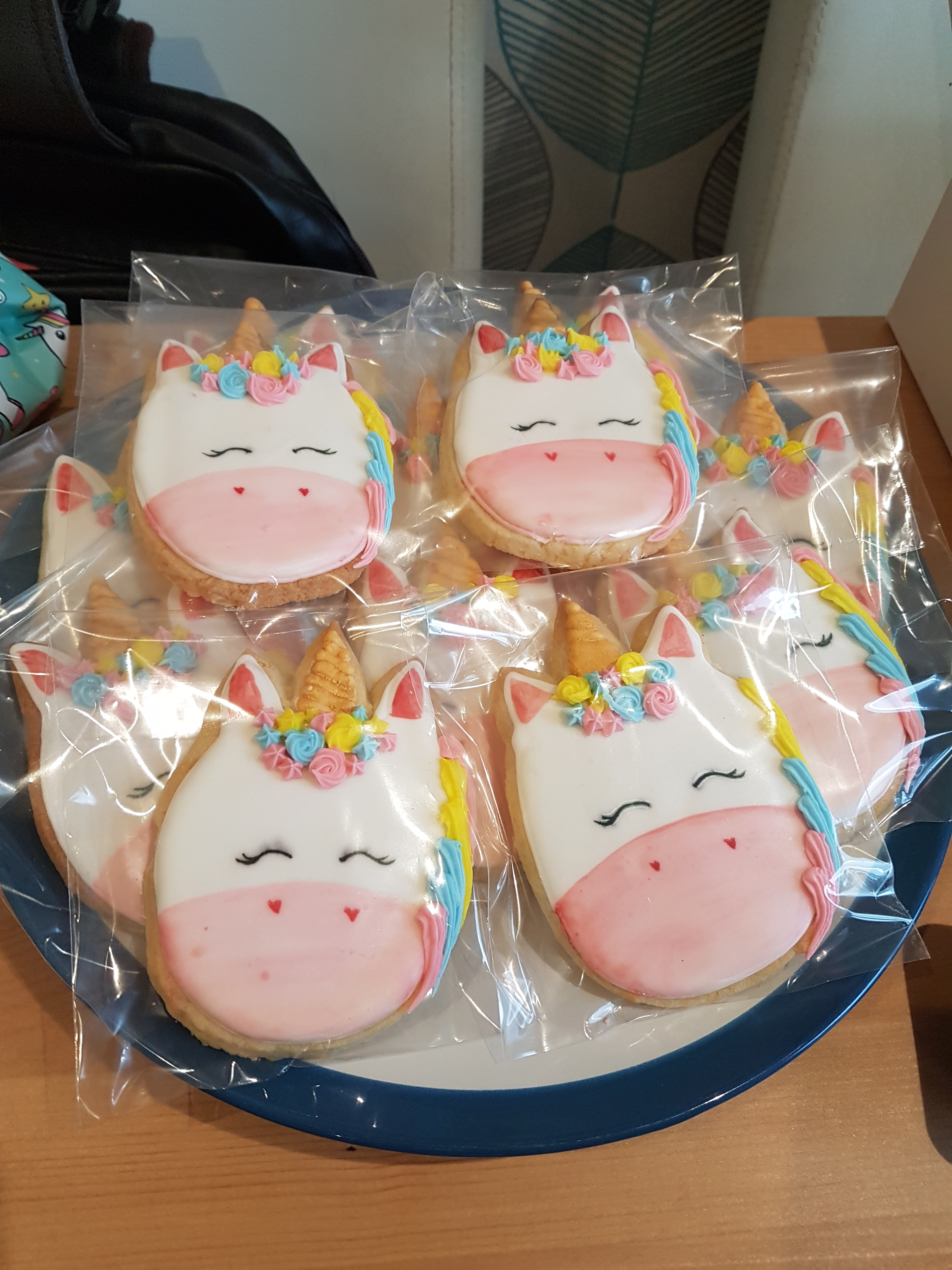 Children's Unicorn Themed Birthday Biscuits